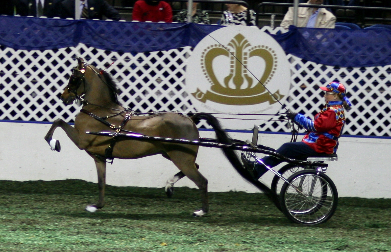 The world's grand champion hackney road pony, Free Willy, in the road pony grand championship class at the 2007 American Royal Horse Show on 17 November, 2007.